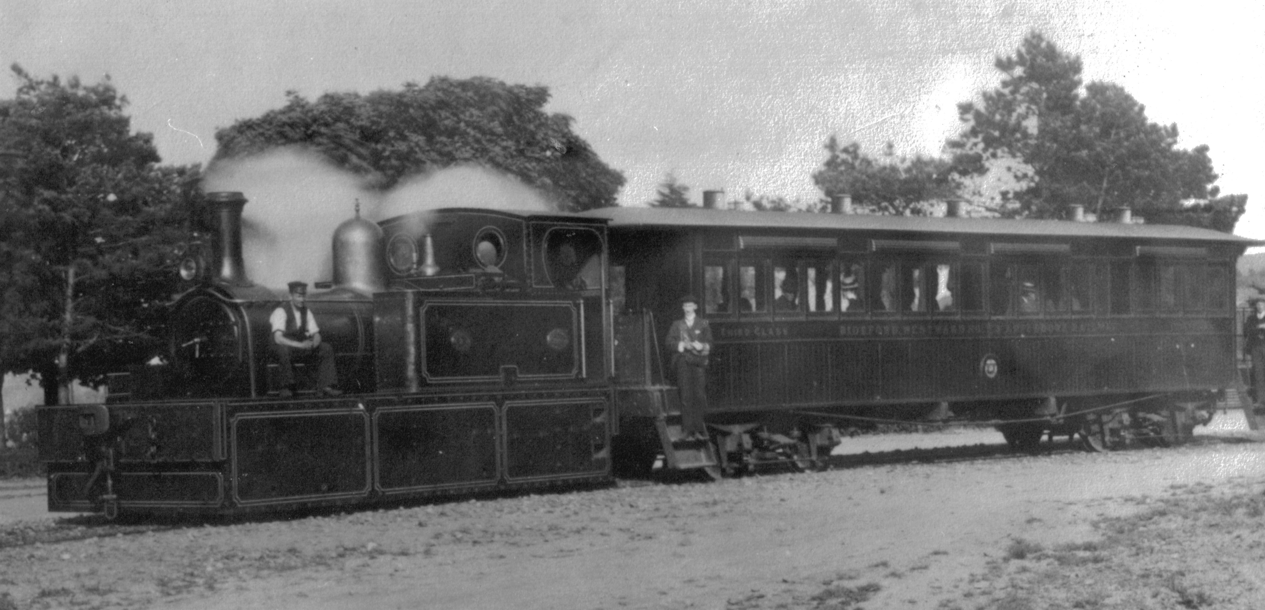 A train on Bideford quay, Devon, England